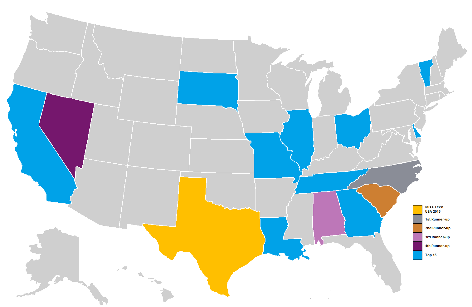 Results by each U.S state and the District of Columbia on the Miss Teen USA 2016 competition.